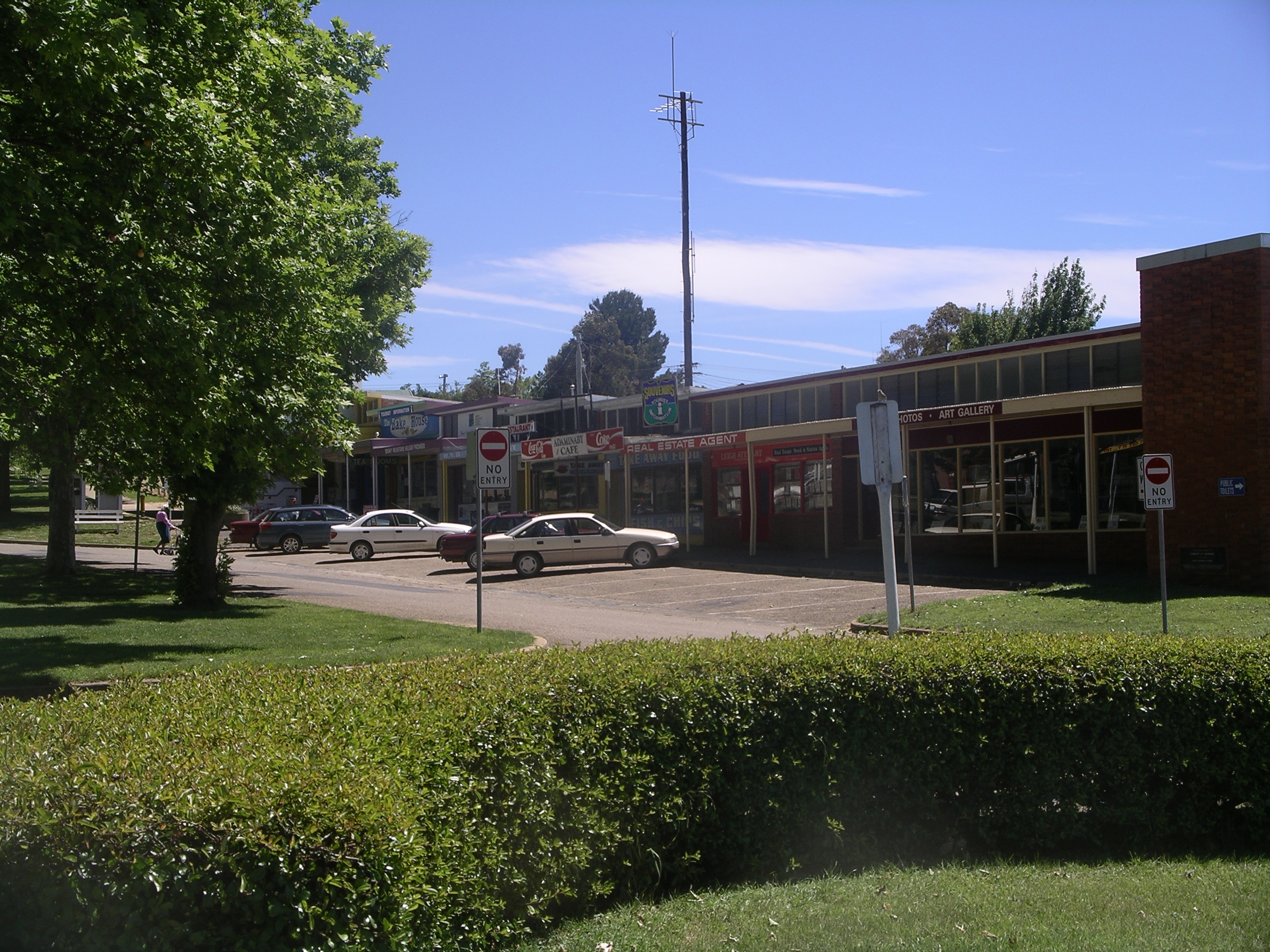 Main street of Adaminaby, New South Wales. Taken by Robert Merkel.